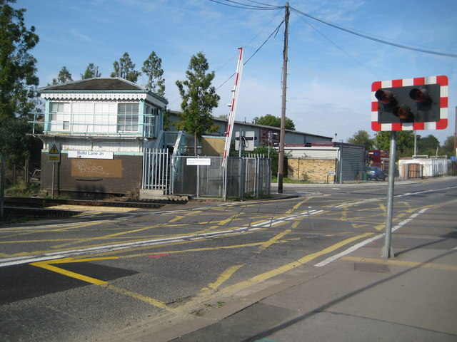 Acton Green: Bollo Lane Junction signal box and level crossing